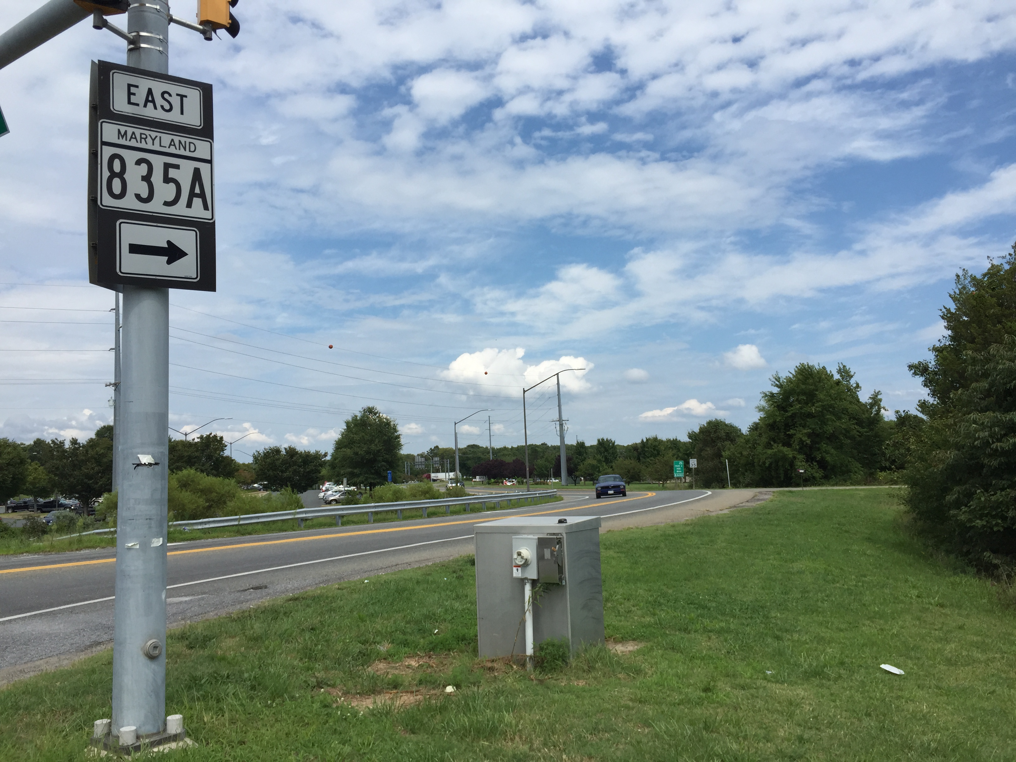 View east along Maryland State Route 835A (Thompson Creek Road) at Maryland State Route 8 (Romancoke Road) in Stevensville, Queen Anne's County, Maryland